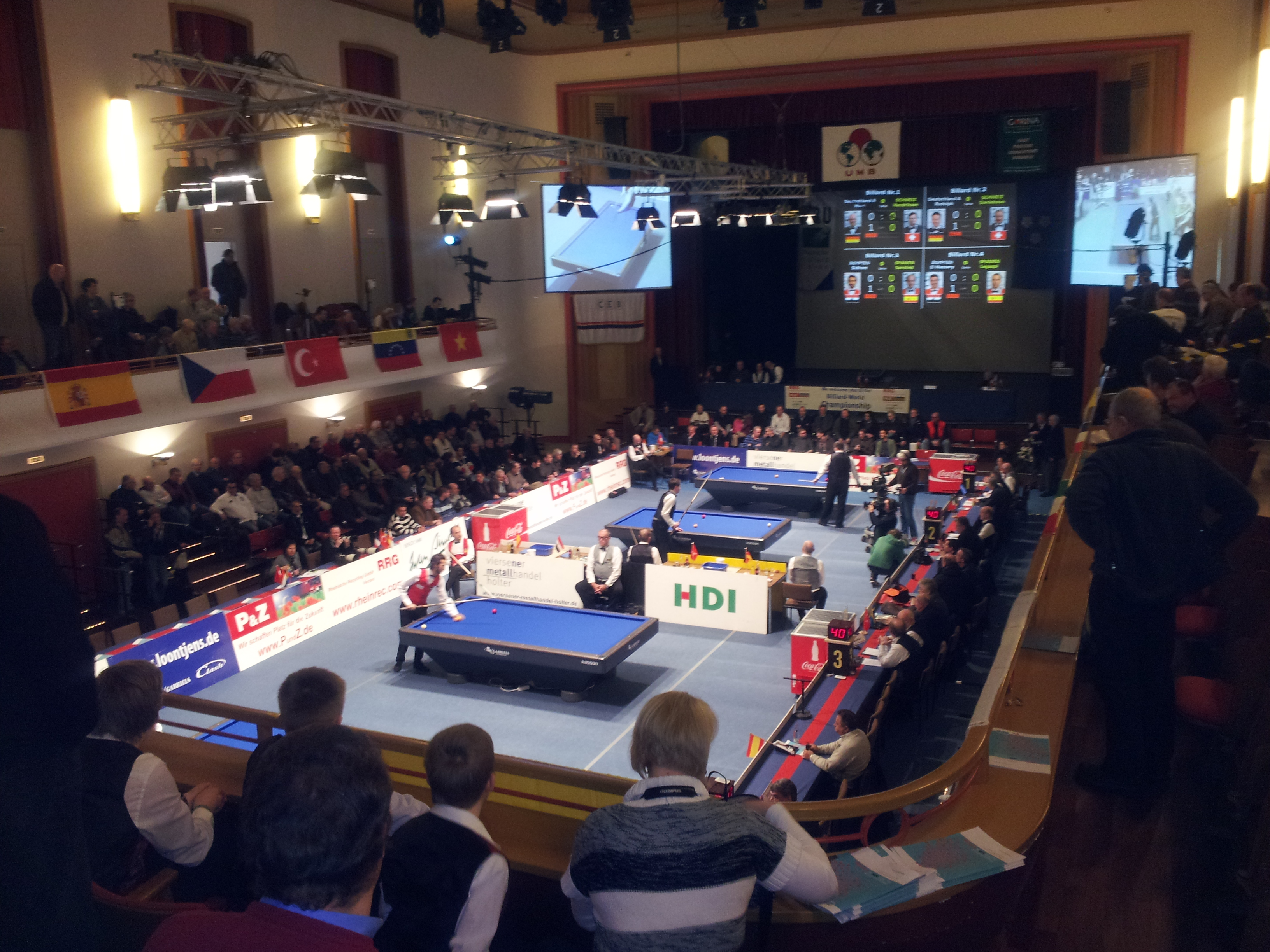 3-cushion World Championships for National Teams in Viersen, Germany on 23 February 2013